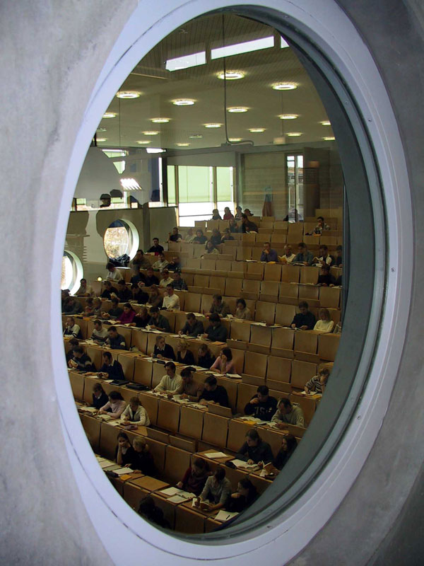 Auditorium Faculty of Law